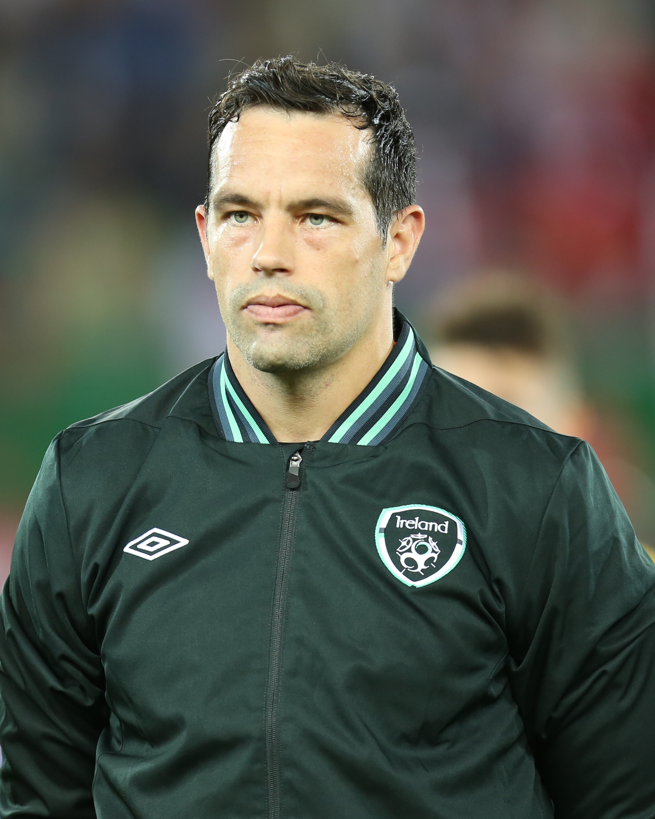 2014 FIFA World Cup qualification (UEFA), Group C: Republic of Ireland national football team at 10. September 2013 before the match against the Austria national football team (0:1) in the Ernst-Happel-Stadion in Vienna. Here: David Forde, irish goalkeeper The making of this work was supported by Wikimedia Austria. For other files made with the support of Wikimedia Austria, please see the category Supported by Wikimedia Österreich.